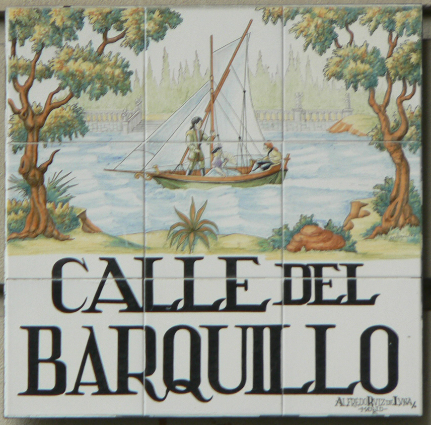 Sign of Calle del Barquillo (street, Centro district) in Madrid (Spain).